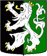 Coat of arms of Lütetsburg (Lower Saxony, Germany)